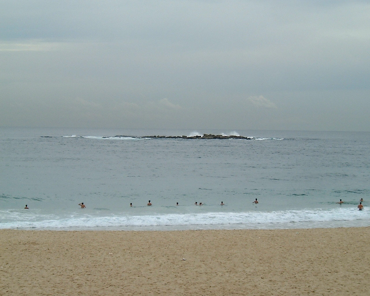 Wedding Cake Island in Coogee Bay, Coogee, Sydney, (New South Wales, Australia)